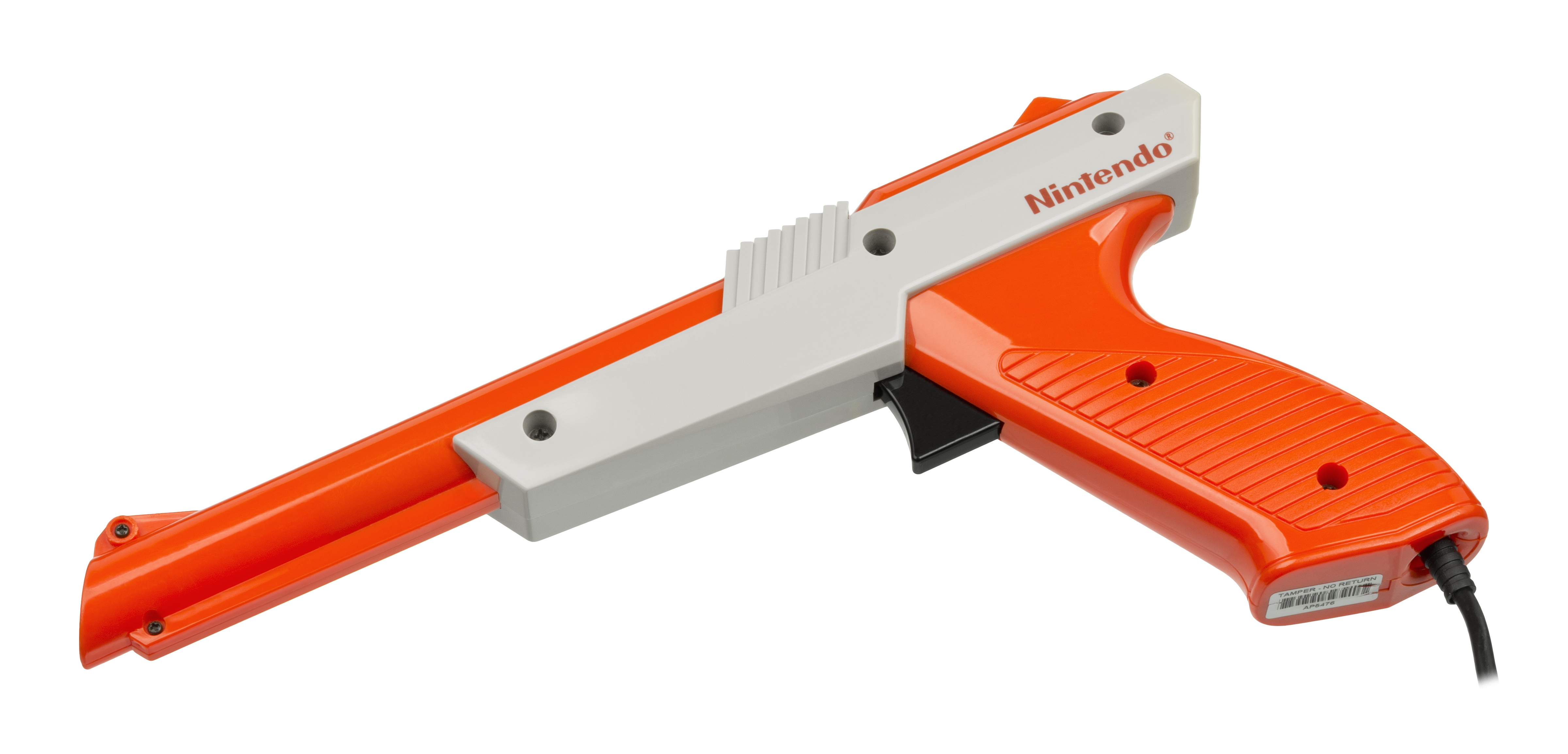 The Nintendo Zapper, a light gun for the Nintendo Entertainment System (NES) video game console. This is the orange model that replaced the gray model, to comply with toy gun safety laws.